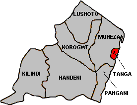 Created by Andrew Coe